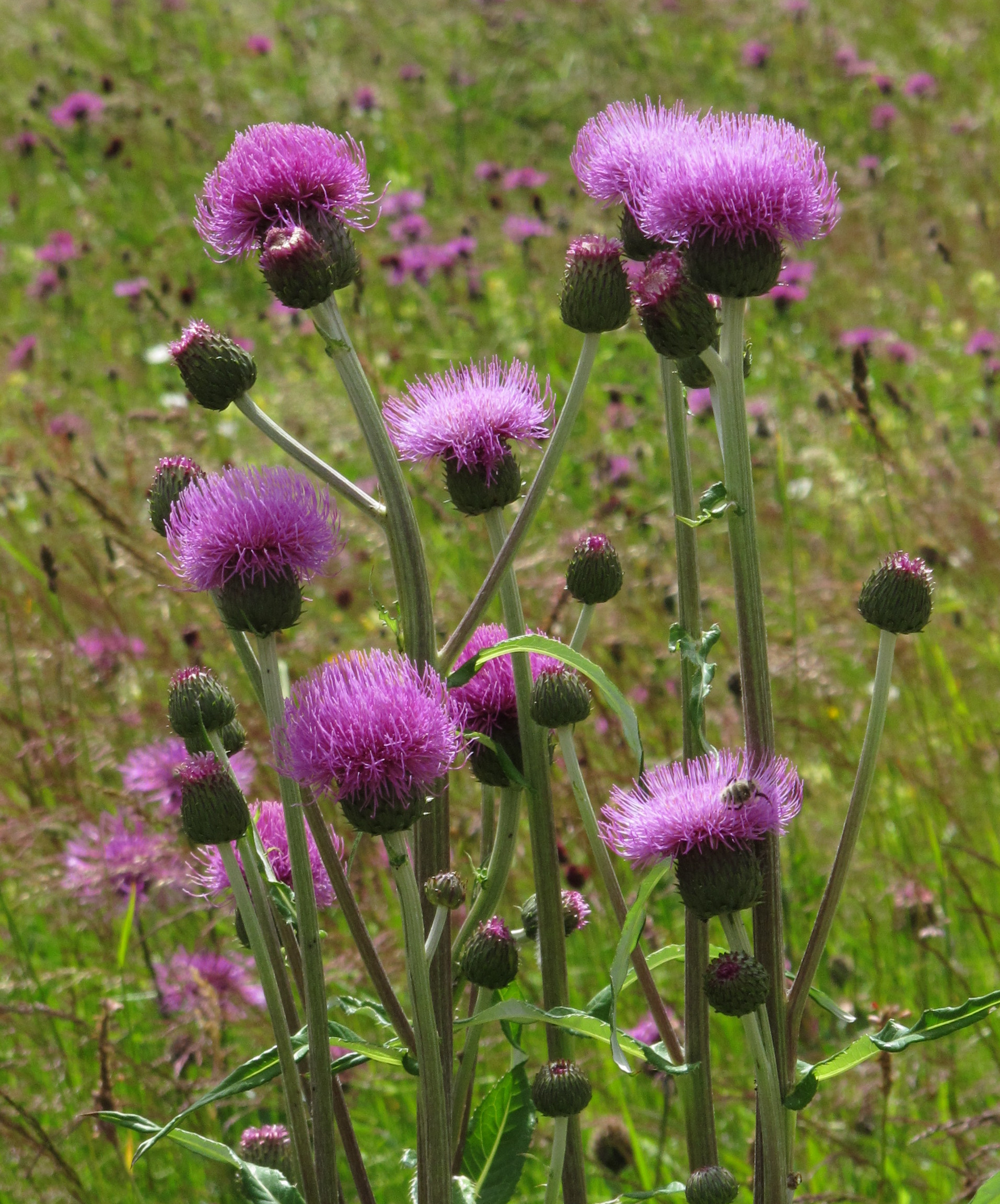 Melancholy thistle (Cirsium heterophyllum) between Bever and Spinas, Switzerland